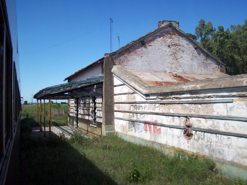 Guerrero train station, built by the BA Great Southern Railway. The station, part of the Roca Railway line to Mar del Plata, was closed and abandoned.